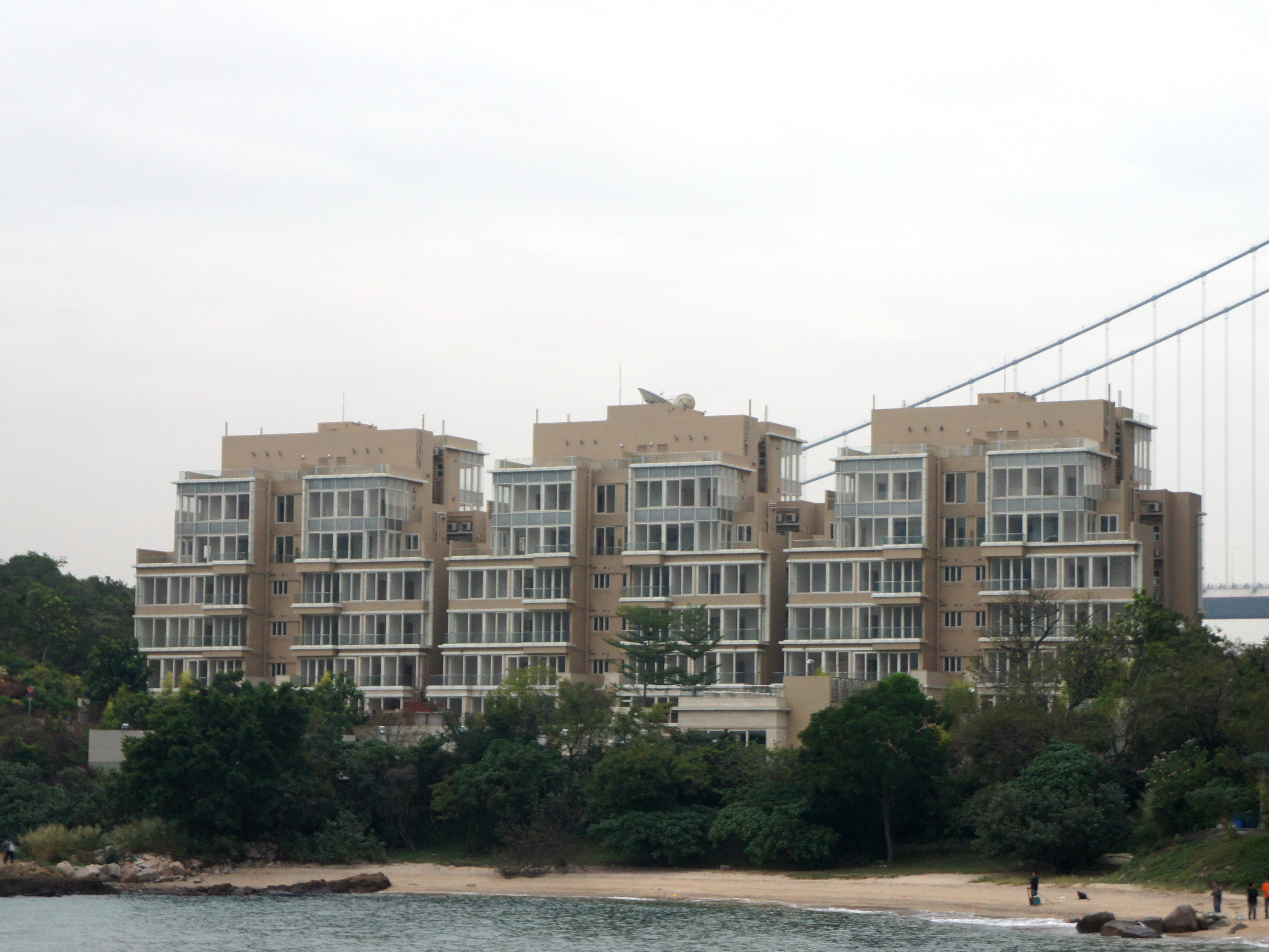 AnaCapri, Park Island, Ma Wan, New Territories, Hong Kong.